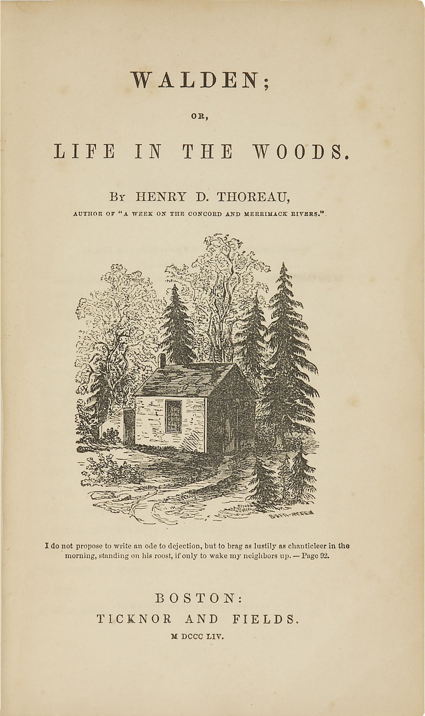 Title page from first edition of Henry David Thoreau's Walden (1854).